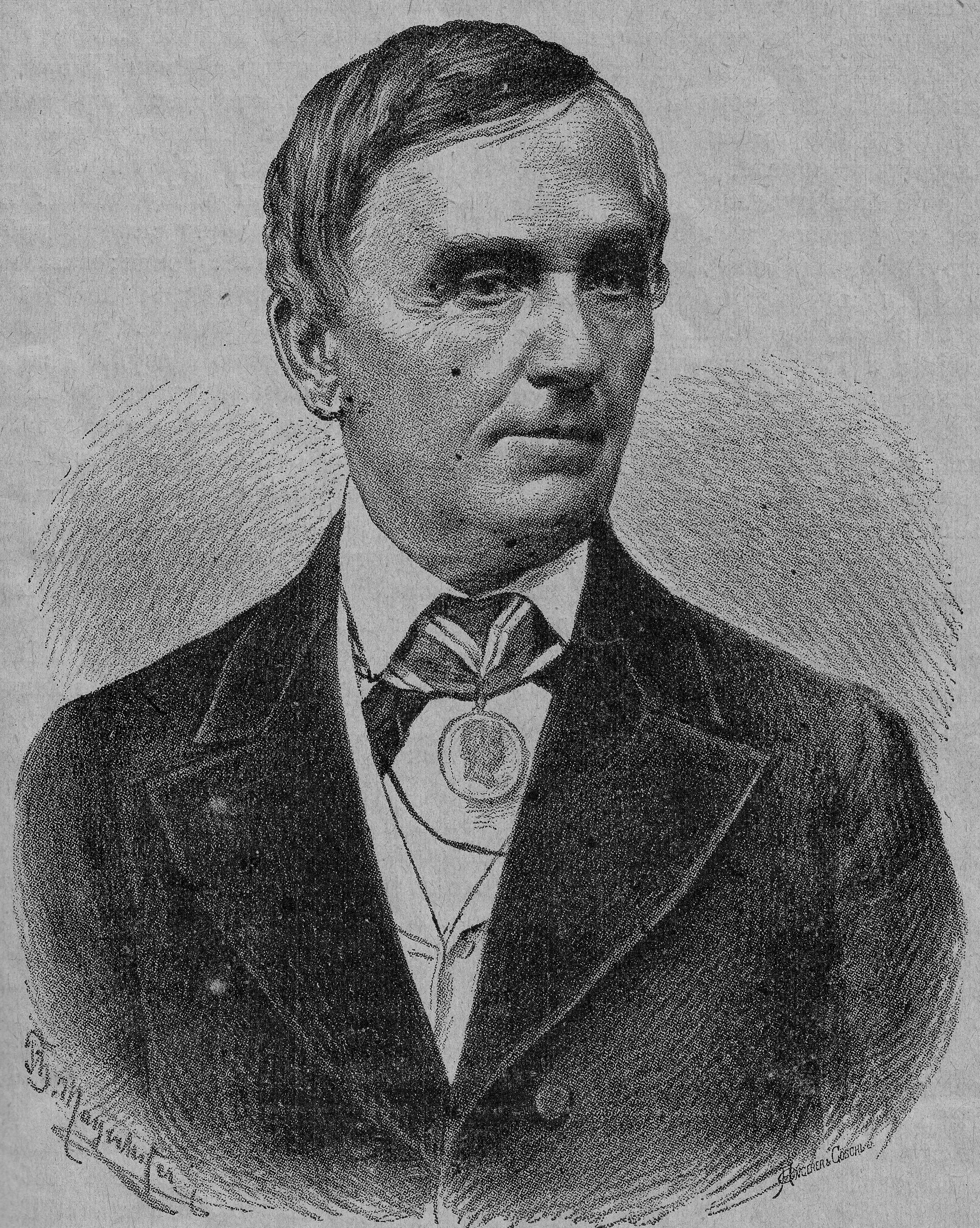 Atanasije Petrov Gereski (1810-1885), Serbian merchant and benefactor. Taken from the 1886 edition of the calendar Orao. Srpski (latinica): Atanasije Petrov Gereski (1810-1885), srpski trgovac i dobrotvor. Preuzeto iz izdanja kalendara Orao za 1886. godinu.